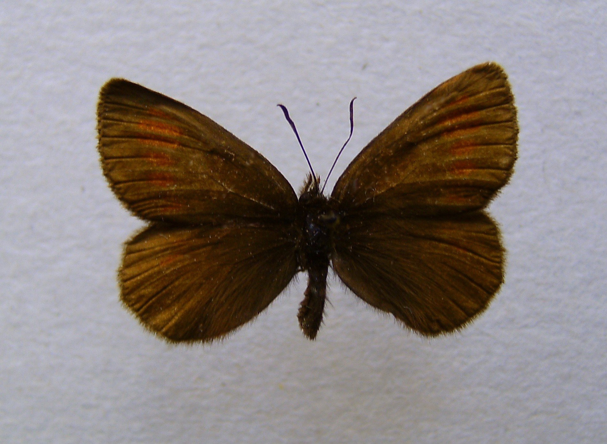 Erebia manto